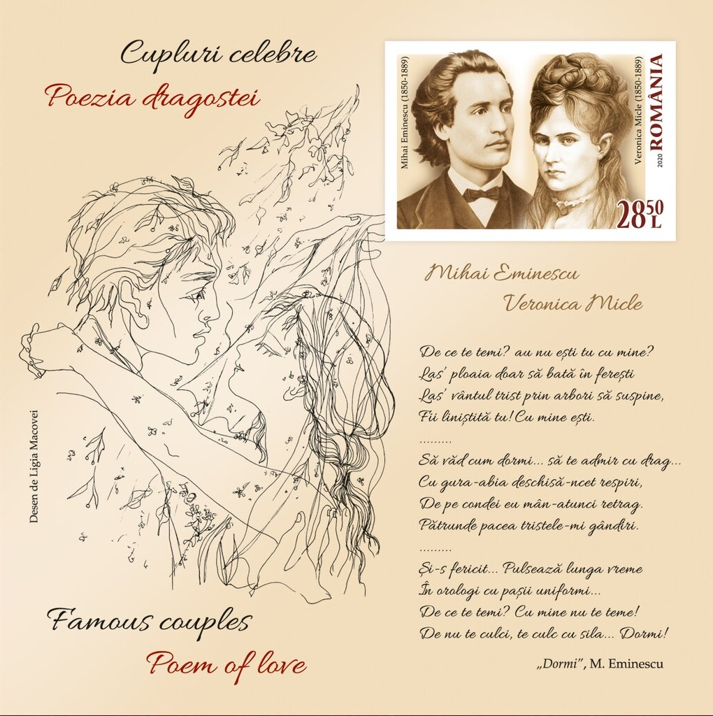 Famous Couples : Mihai Eminescu and Veronica Micle